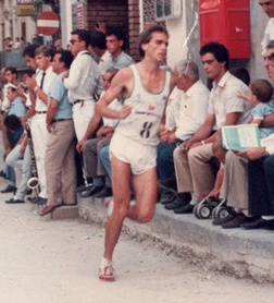 Gianni Poli during a race in Italy in 1980s